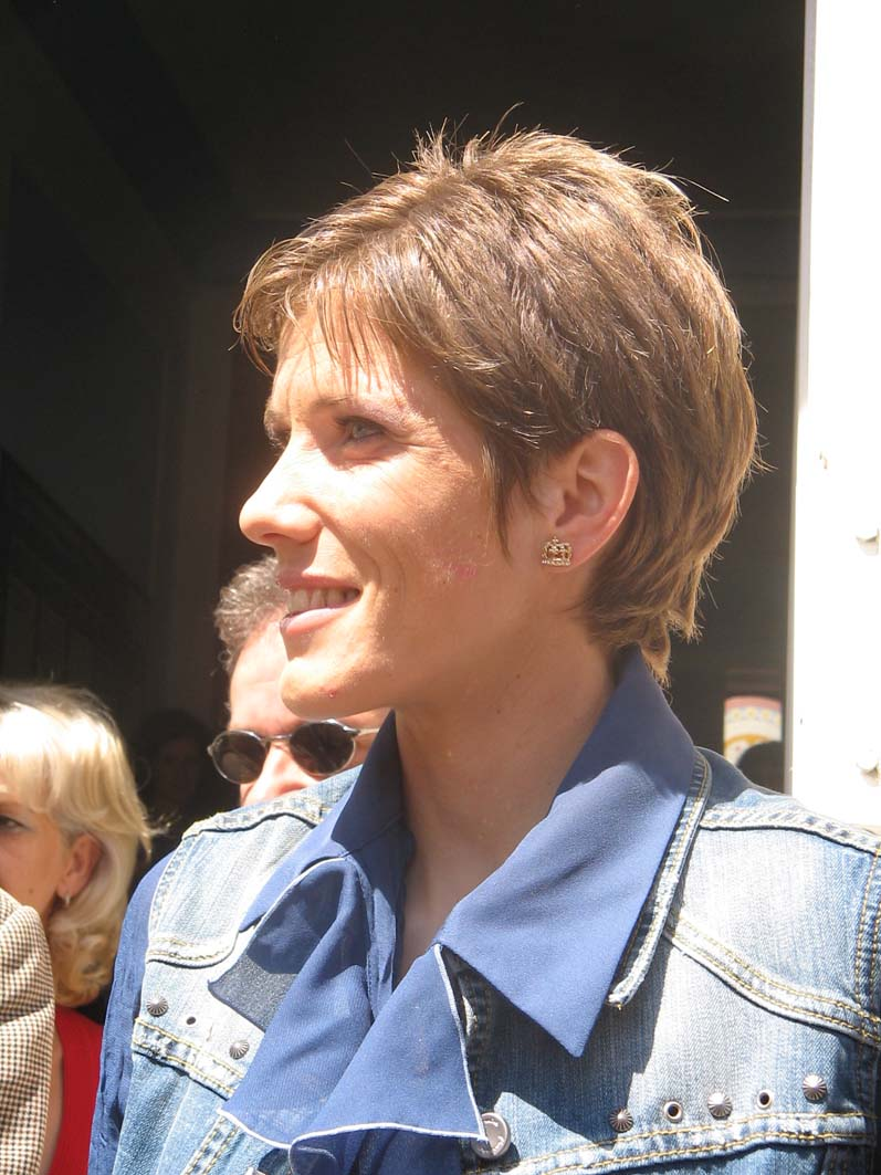 Olivera Jevtić in her hometown Užice upon her arrival from Goeteborg, Sweden, where she won European Championship marathon silver medal.